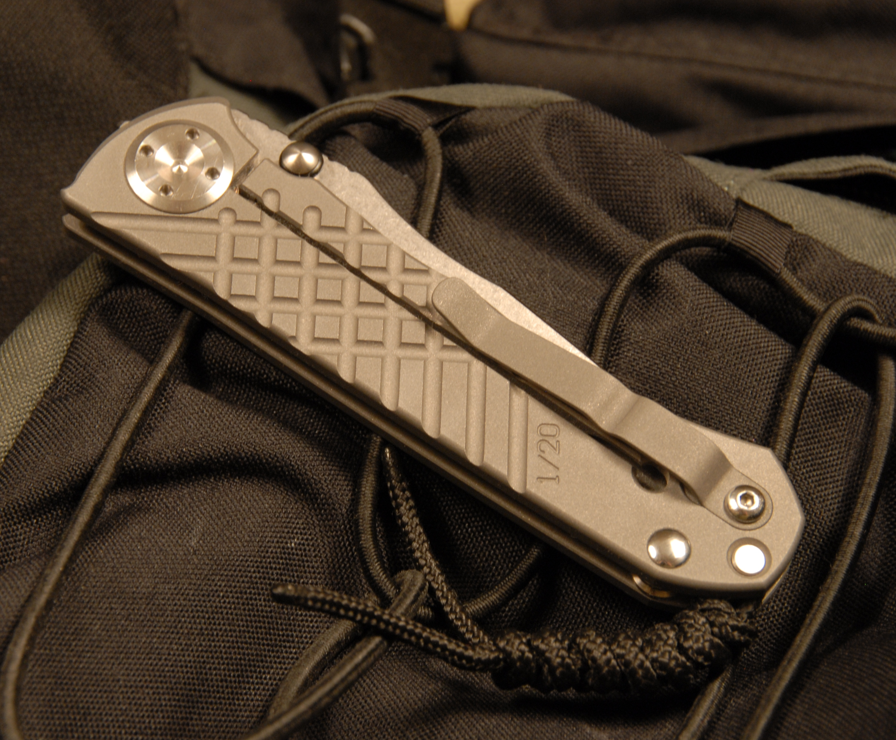 Back view of 1 of 20 prototype Umnumzaan folder